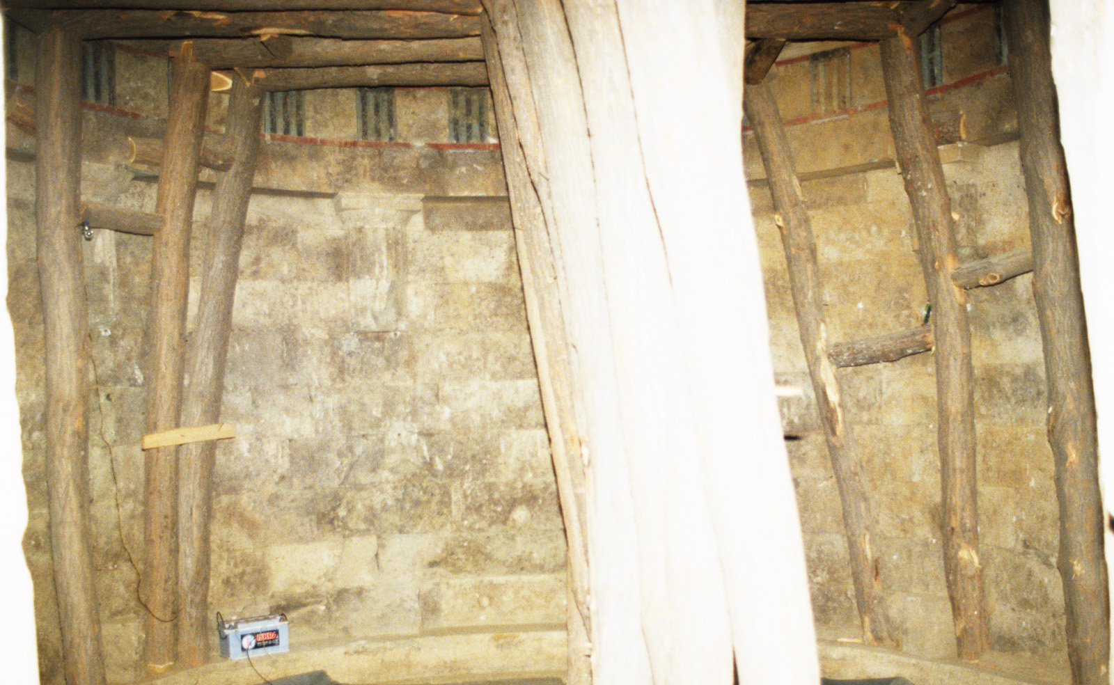 Inside Thracian tomb near Starosel, Bulgaria